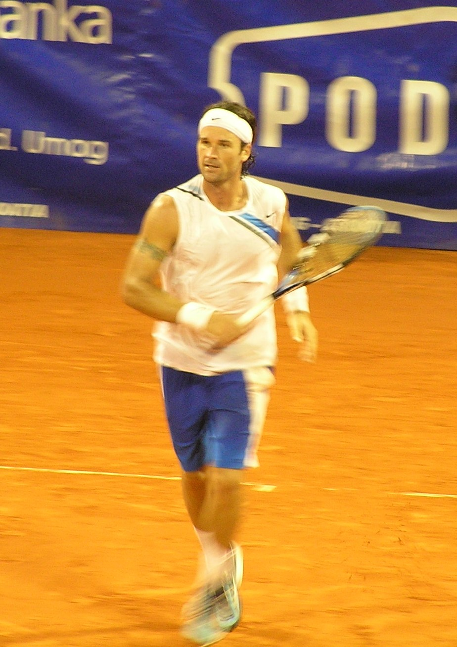 Carlos Moya in Umag, Croatia